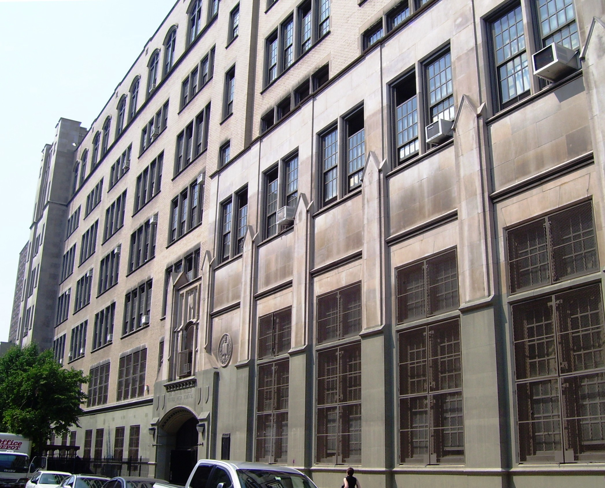 The Bayard Rustin Educational Complex at 351 18th Street between Eighth and Ninth Avenues in the Chelsea neighborhood of Manhattan, New York City consists of two buildings, one on 18th Street and a parallel one on 19th Street, connected in the middle. This picture shows the 18th Street building from just east of the center, looking west.